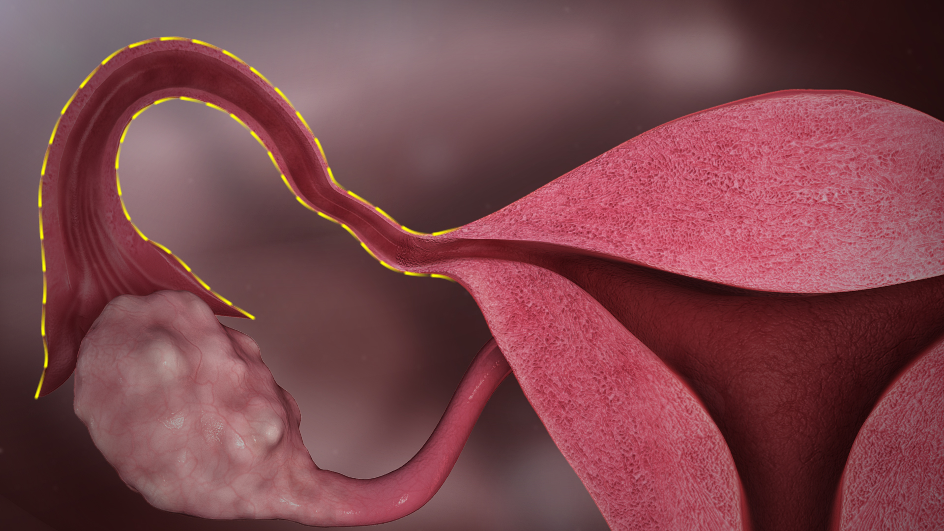 3D medical animation still showing cross section view of fallopian tube highlighted with yellow lines.